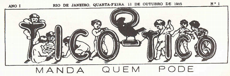 Header of O Tico-Tico magazine. Created by Angelo Agostini.